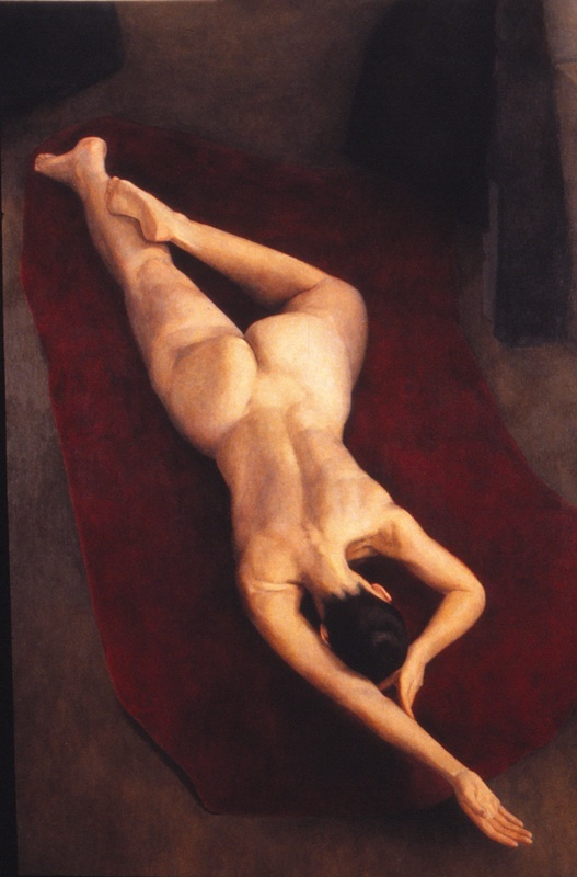 Reaching, Regina Hawkins-72x48-1993-1996